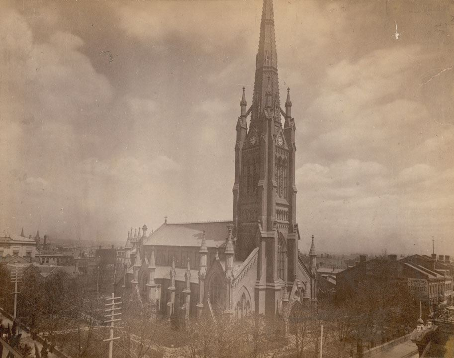 St. James Cathedral (Toronto, Canada)